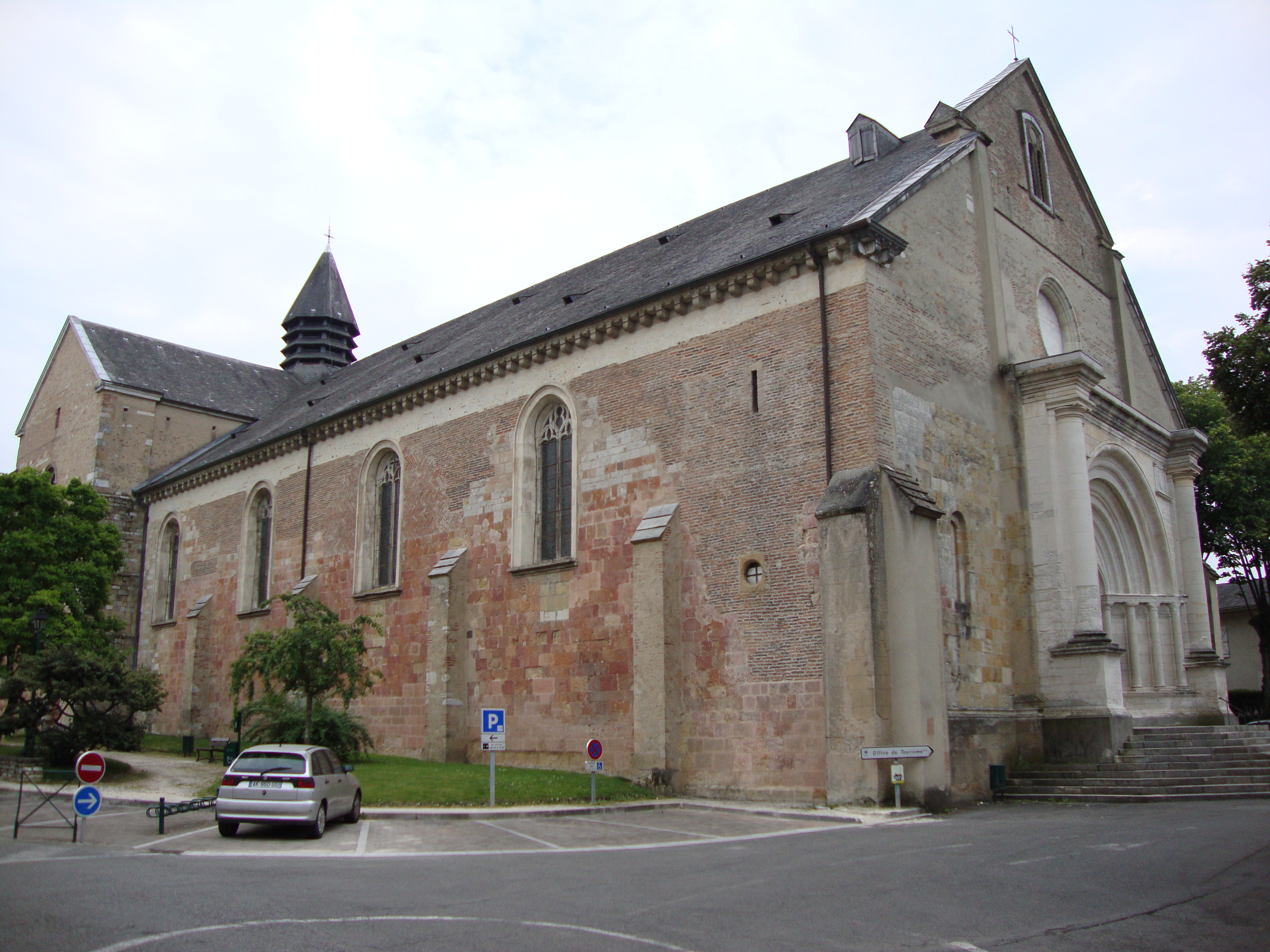 Lescar (Pyr-Atl, Fr) Cathédrale coté porche